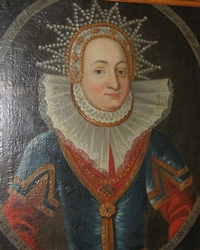 Christina of Saxony (1461-1521), Queen of Denmark